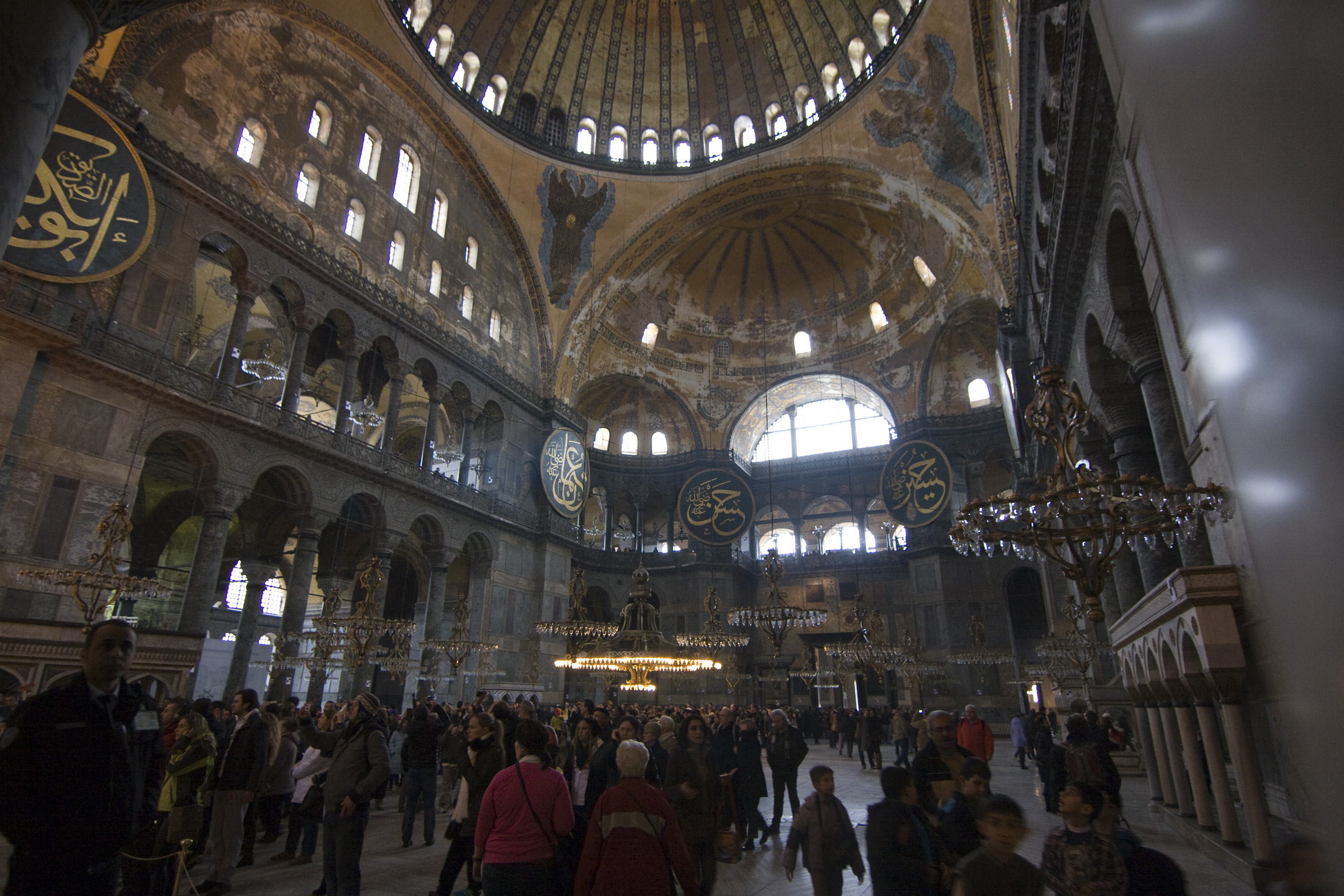 Interior of Hagia Sophia